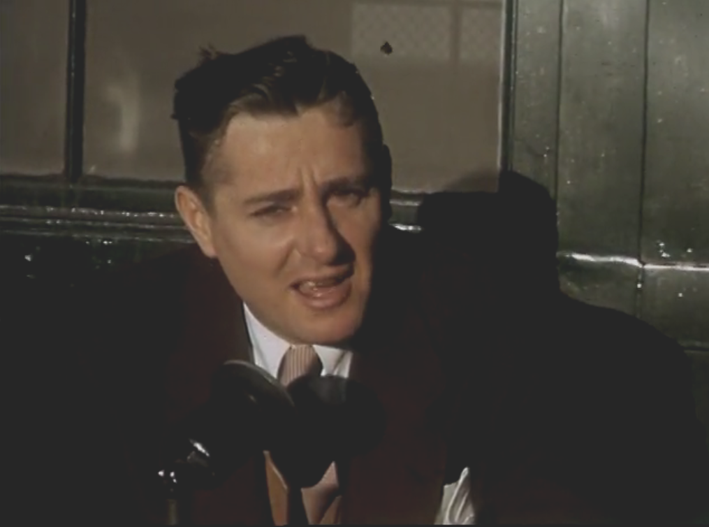 Boston Red Sox announcer Curt Gowdy in the early 1950s. Taken from a film in the Prelinger Archive, about the 0:51 mark of the film.